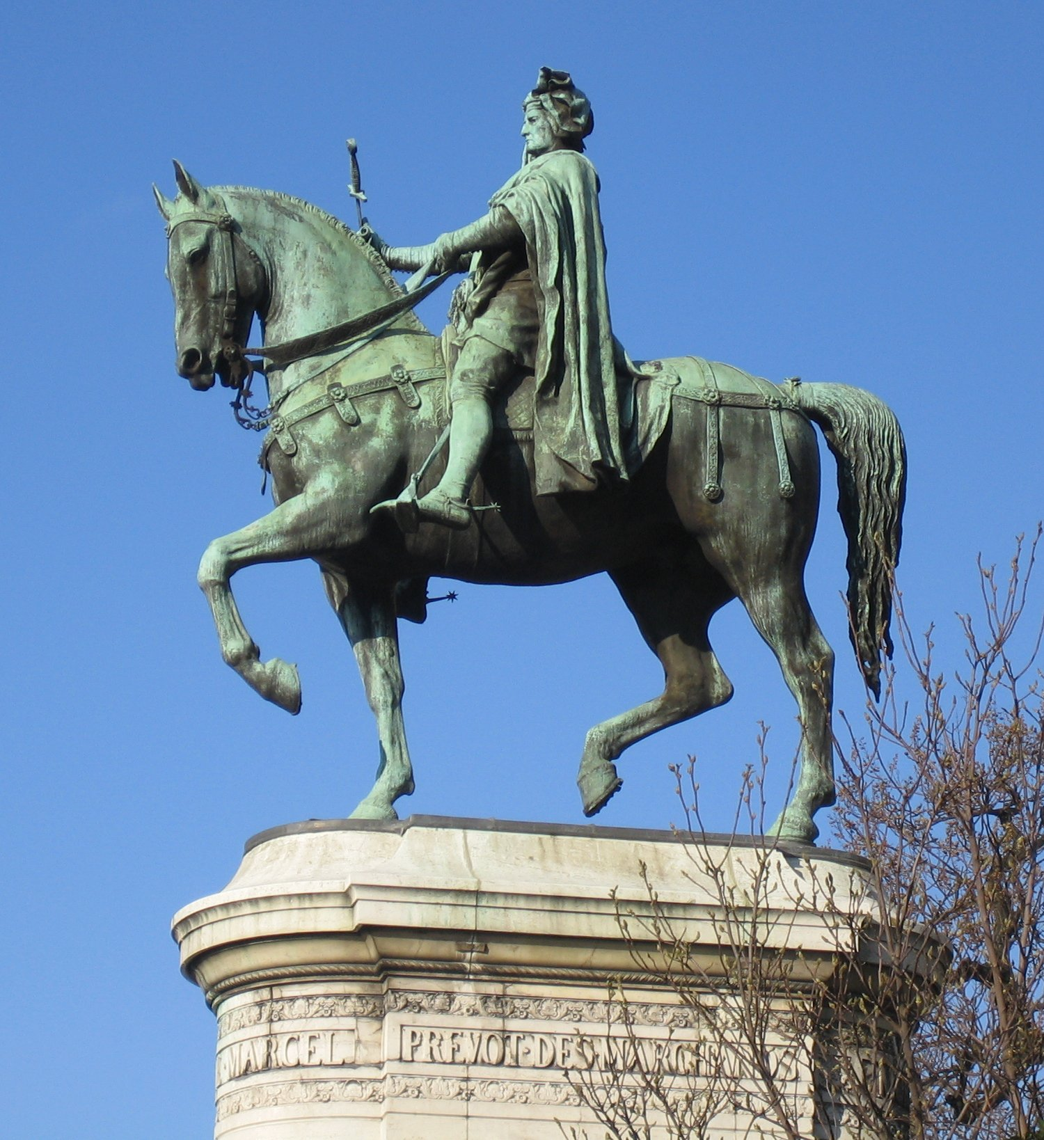 Etienne Marcel (Étienne Marcel), prévôt des marchands of Paris (in the Middle Ages) Statue by Antonin Idrac near the Hôtel de Ville. Photo taken by Thierry in Jan. 2006.